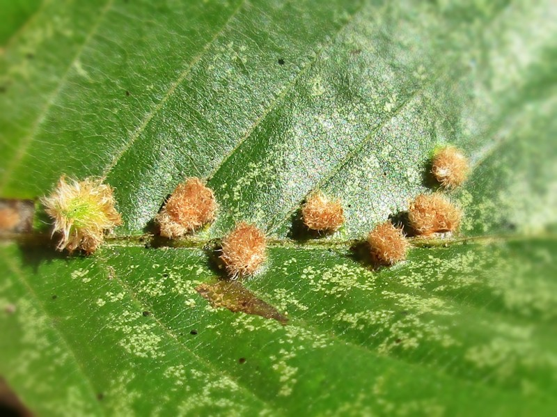 Hartigiola annulipes (Cecidomyiidae sp.) gall, Doorwerth, the Netherlands